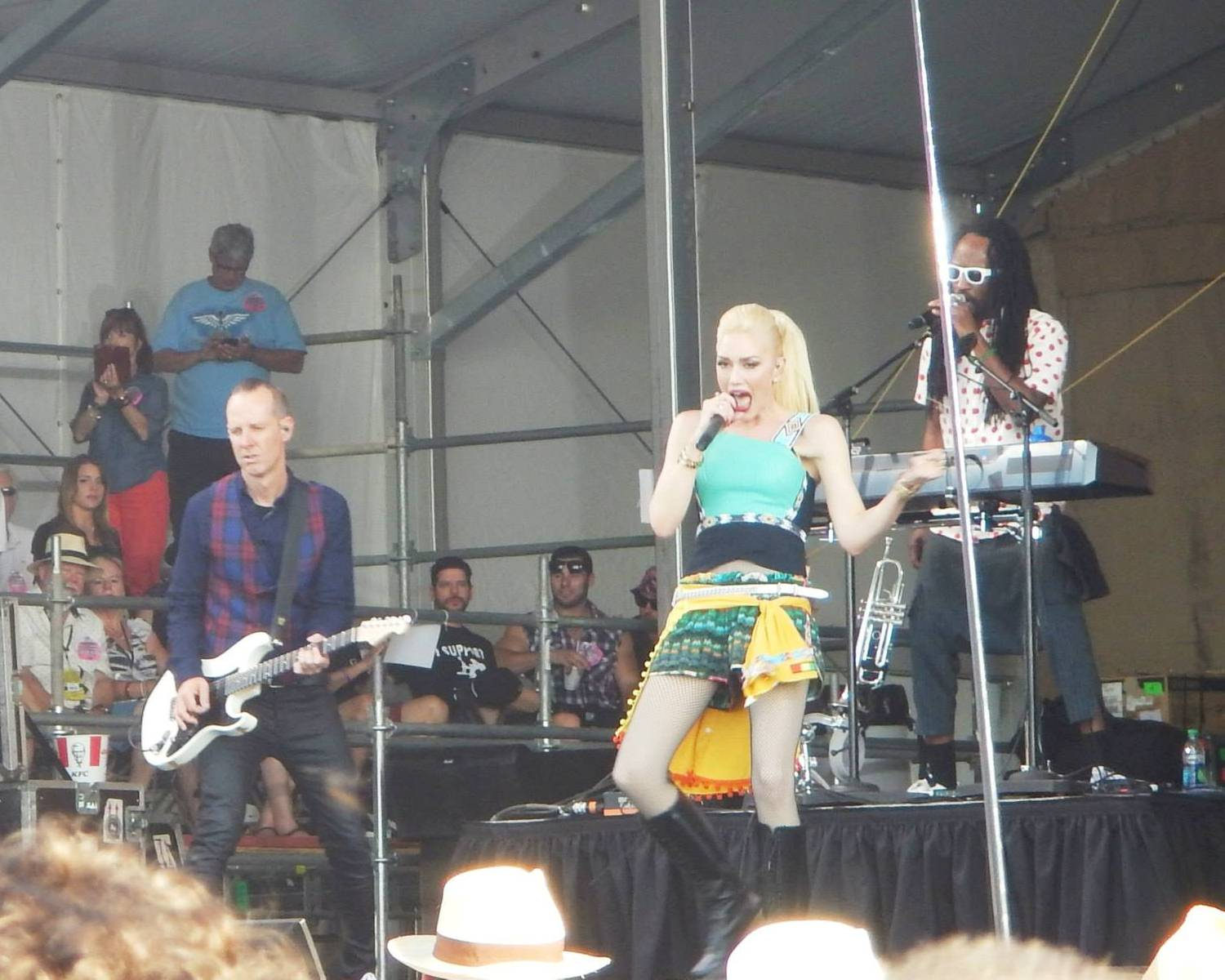 Gwen Stefani performs with No Doubt at the New Orleans Jazz & Heritage Festival on May 1, 2015